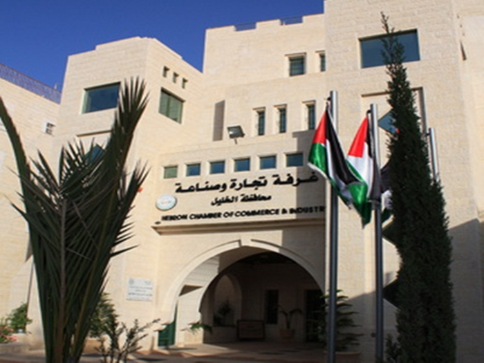 Hebron City